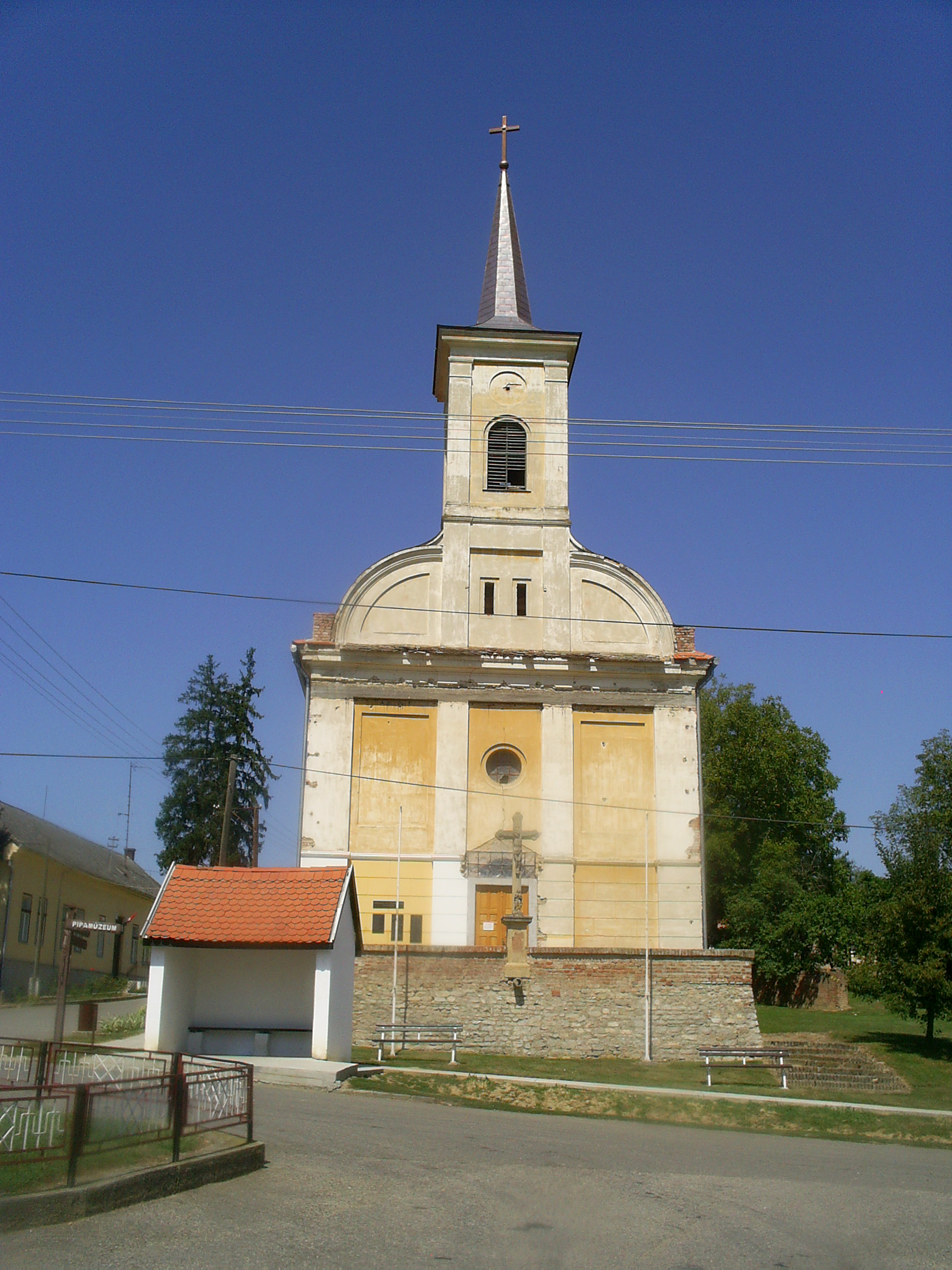 the church of Ibafa from the front